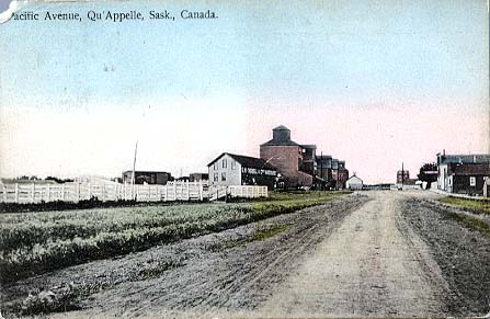 Pacific Avenue, circa 1910